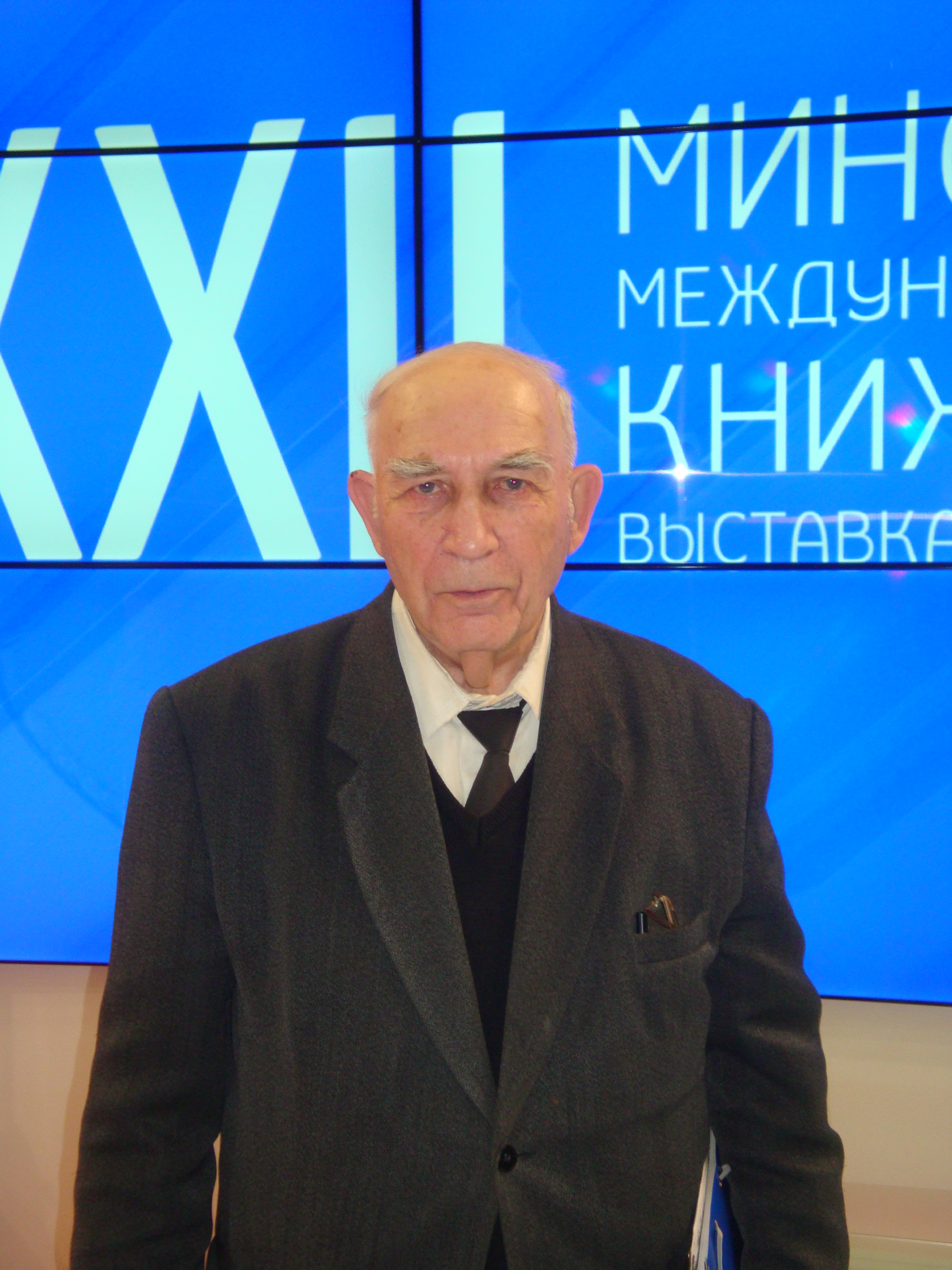 Piotr Fiodaravich Lysenka/Pyotr Fyodorovich Lysenko (born 1931 AD) -- a Belarusian archaeologist, Doctor of History (since 1988), professor (since 1993). His public appearance on XXII International book exhibition in Minsk city (Belarus). 14 February 2015 AD